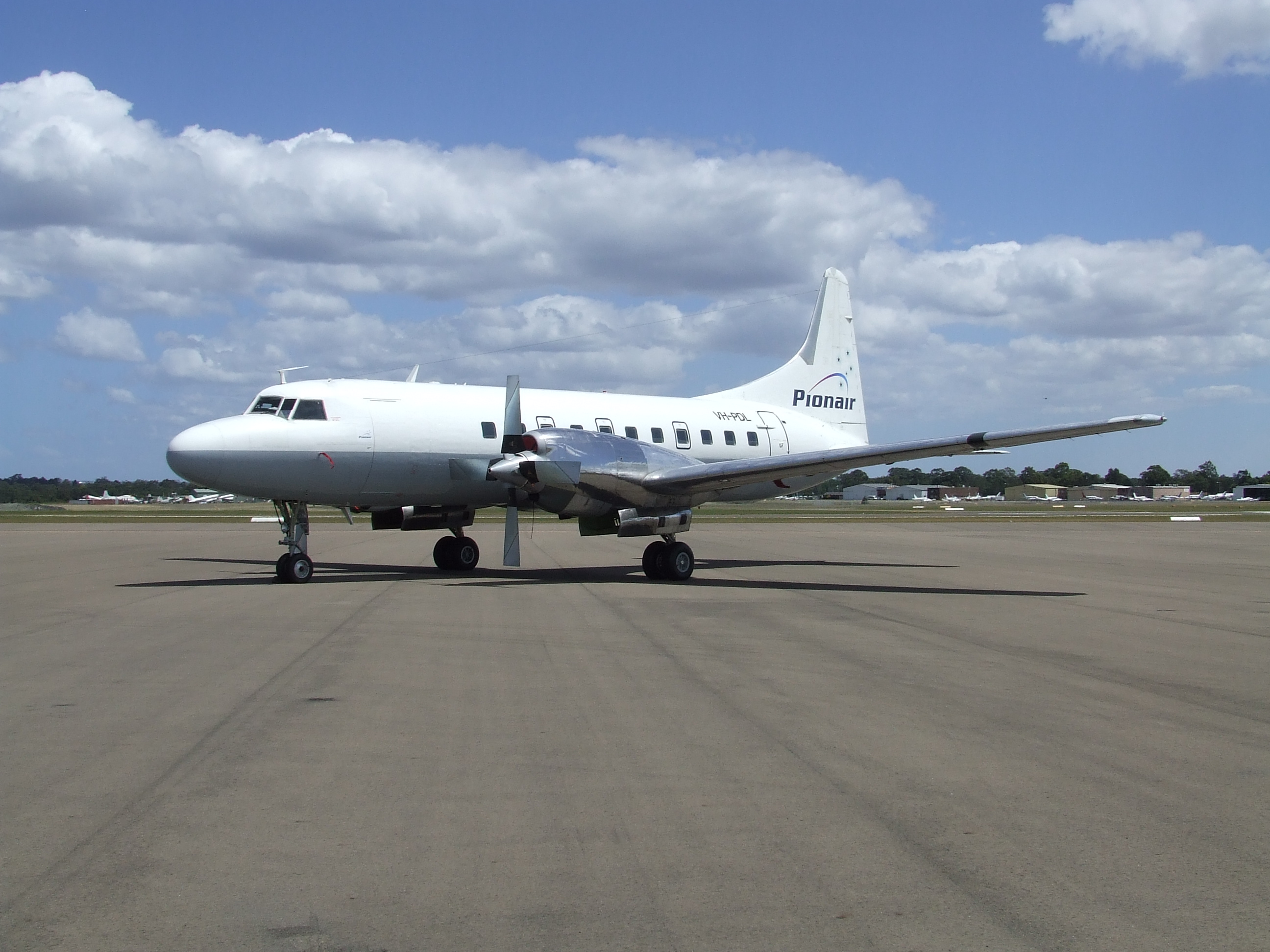 This Convair 580 was converted from a Convair 340. Digital photo of VH-PDL taken at Bankstown Airport on 29 October 2006 by YSSYguy & uploaded for use in the Convair CV-240 article.